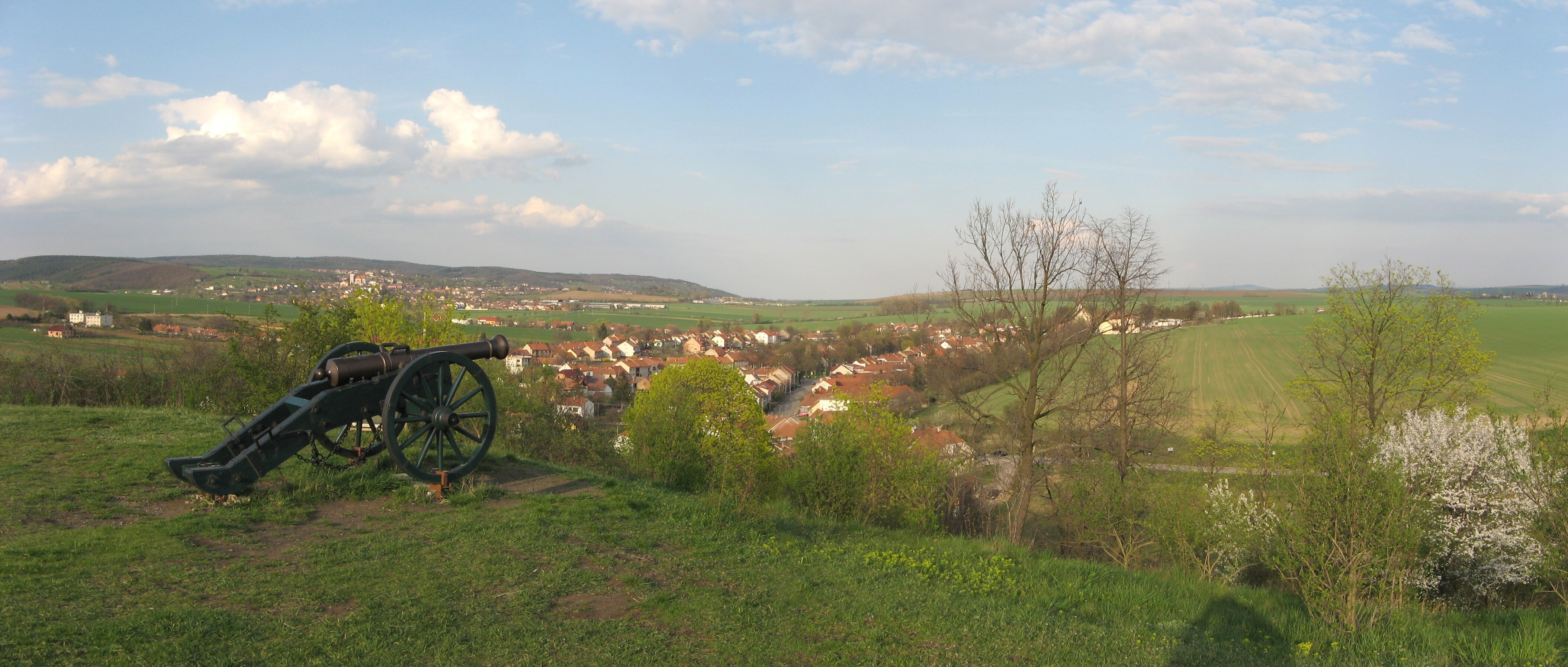 Sight of Tvarožná (now without the cannon)